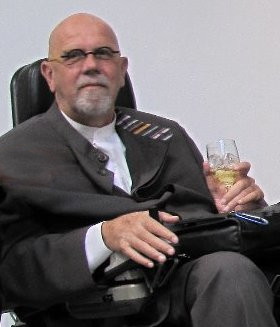 Michael Danoff, Chuck Close, Donald Farnsworth, and Brad Pitt in front of Close's 2009 tapestry portrait 'Brad' at PaceWildenstein, New York on May 1, 2009.